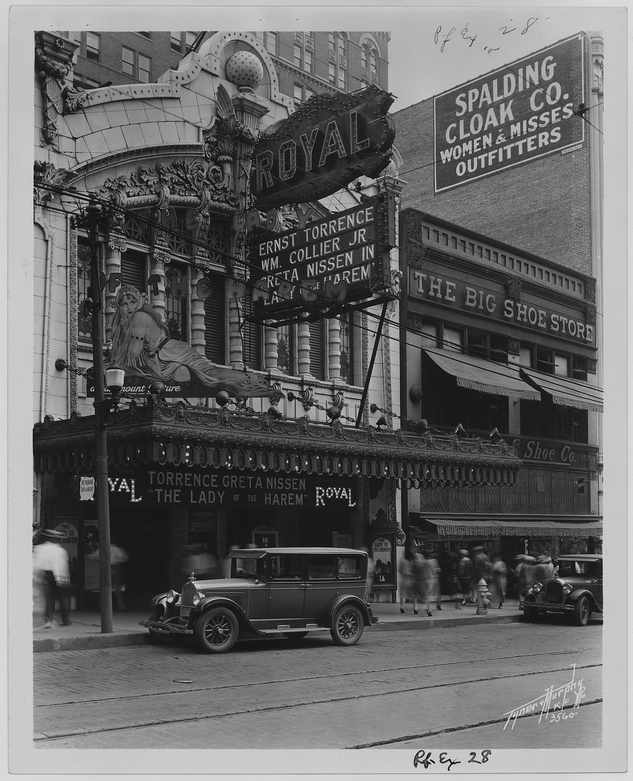 Scope and content: Exterior shots, both daylight and night exposures, showing the front of the theater and other businesses on the street. The marquee displays feature Clara Bow, Douglas Fairbanks, Lillian Gish, and Harold Lloyd, among others. The motion picture titles are clearly visible. #891 is a panorama of the block clearly showing details on the front of the buildings. In many of the photos cars are parked on the street.